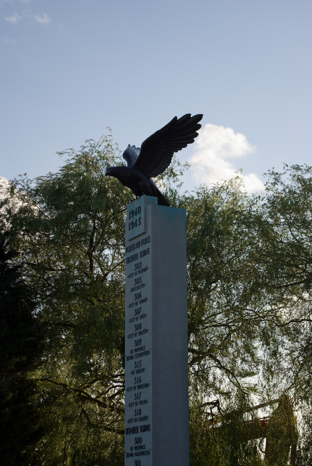 The monument to the Polish squadrons of the RAF who served in WW2, sited on the North Circular near RAF Northolt in London